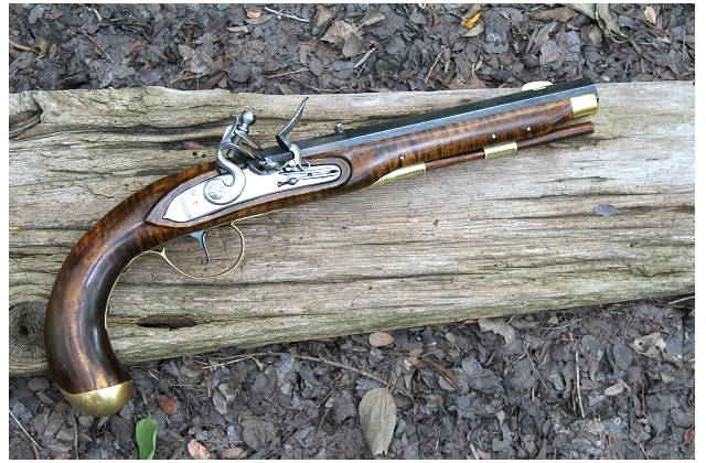 full stock custom kentucky patern flintlock pistol